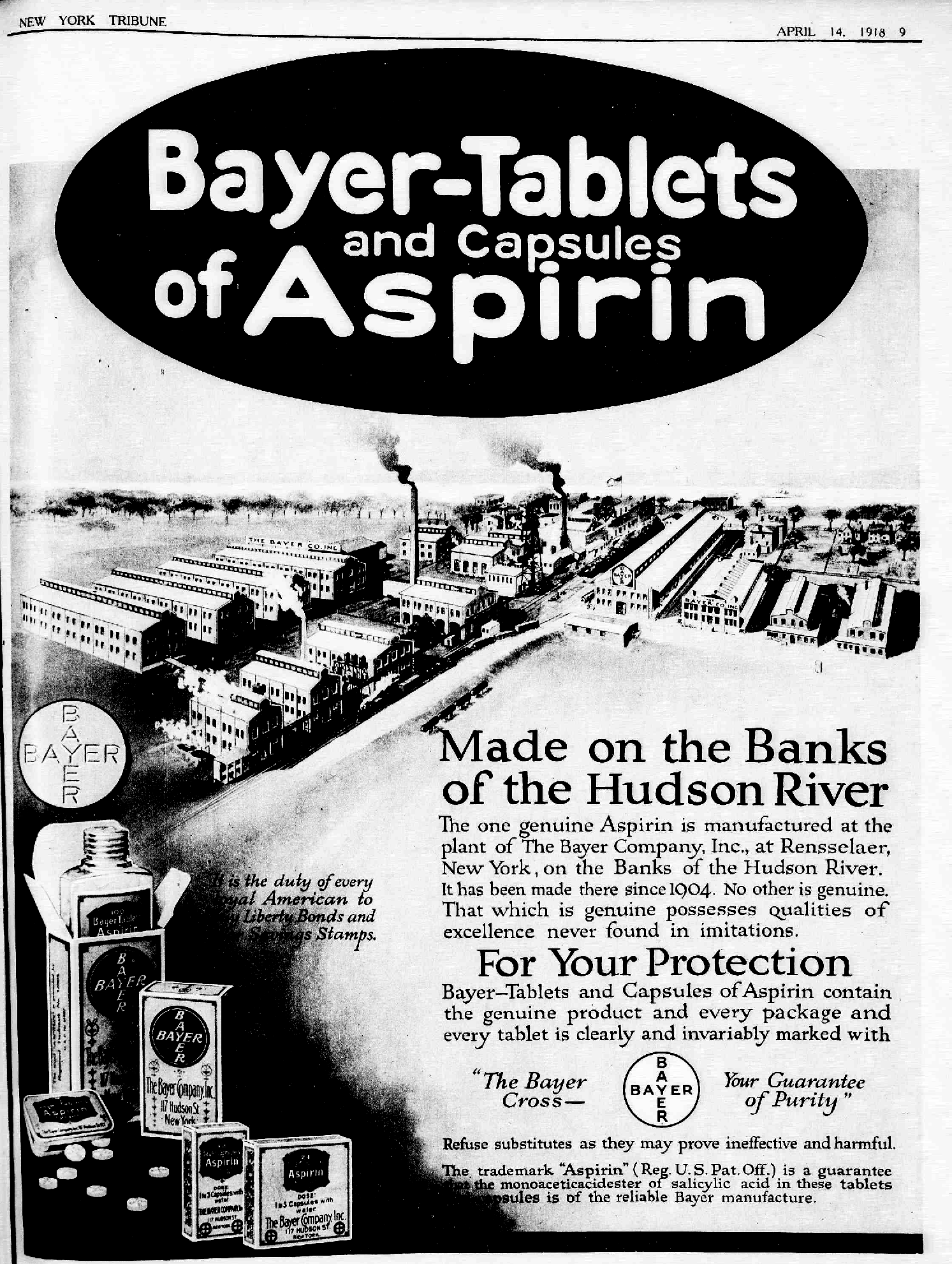 Newspaper ad for Bayer Aspirin from the USA, dated 1918. The USA was at war with Germany, the aspirin patent had expired and Bayer would not lose the right to use the trademark yet (it would in 1919). Also note the "patriotic" saying to promote Liberty Bond sales.